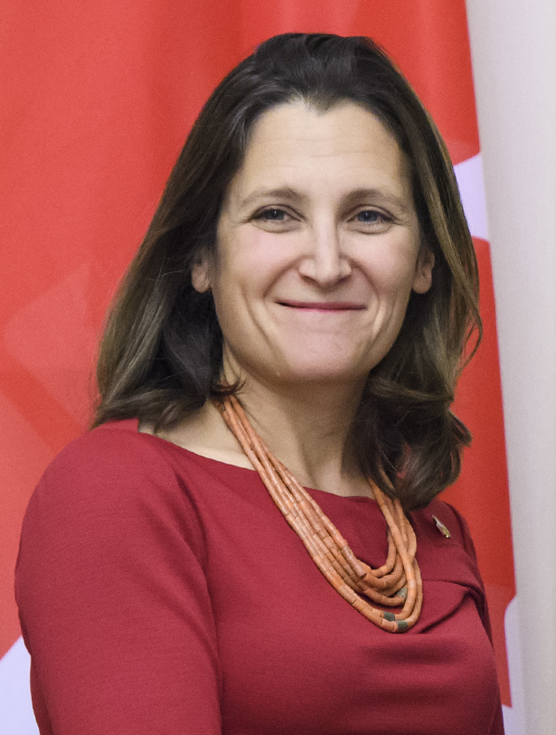 Chrystia Freeland with Prime Minister of Ukraine Volodymyr Groysman in Ukraine